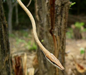 Head of Mexican Vine Snake, Oxybelis aeneus, showing 'coincident disruptive pattern' (dark, strongly contrasting eyestripe) to conceal the eye.